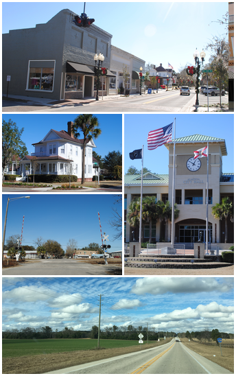 Collection of photos I took in Alachua, Florida